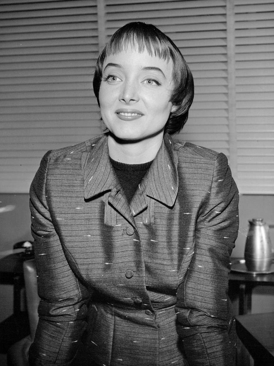 Photo of Carolyn Jones from an appearance on the television program The Millionaire.